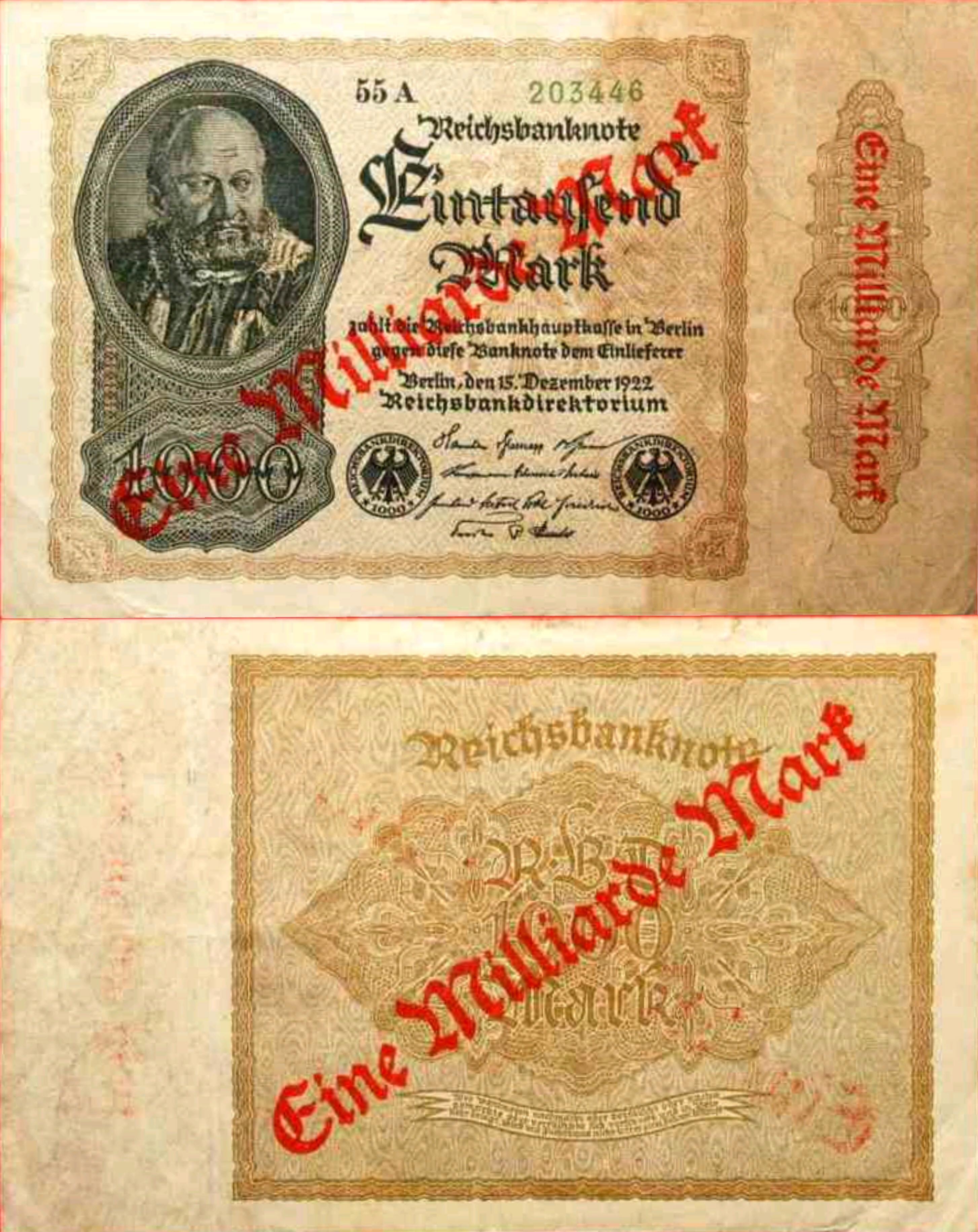 1 Billion Mark from 1923 (former 1000 Mark banknote)